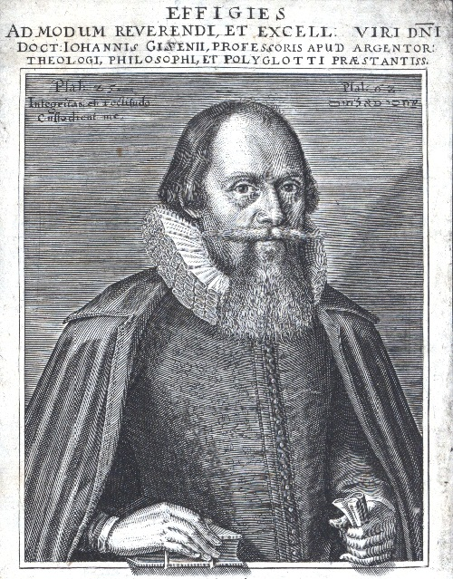 Johannes Gisenius (1577-1658), engraving by Jakob van der Heyden (1573-1645)